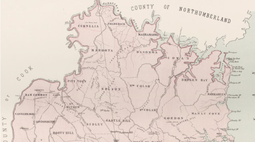 Map of the north portion of the County of Cumberland, New South wales in 1886.